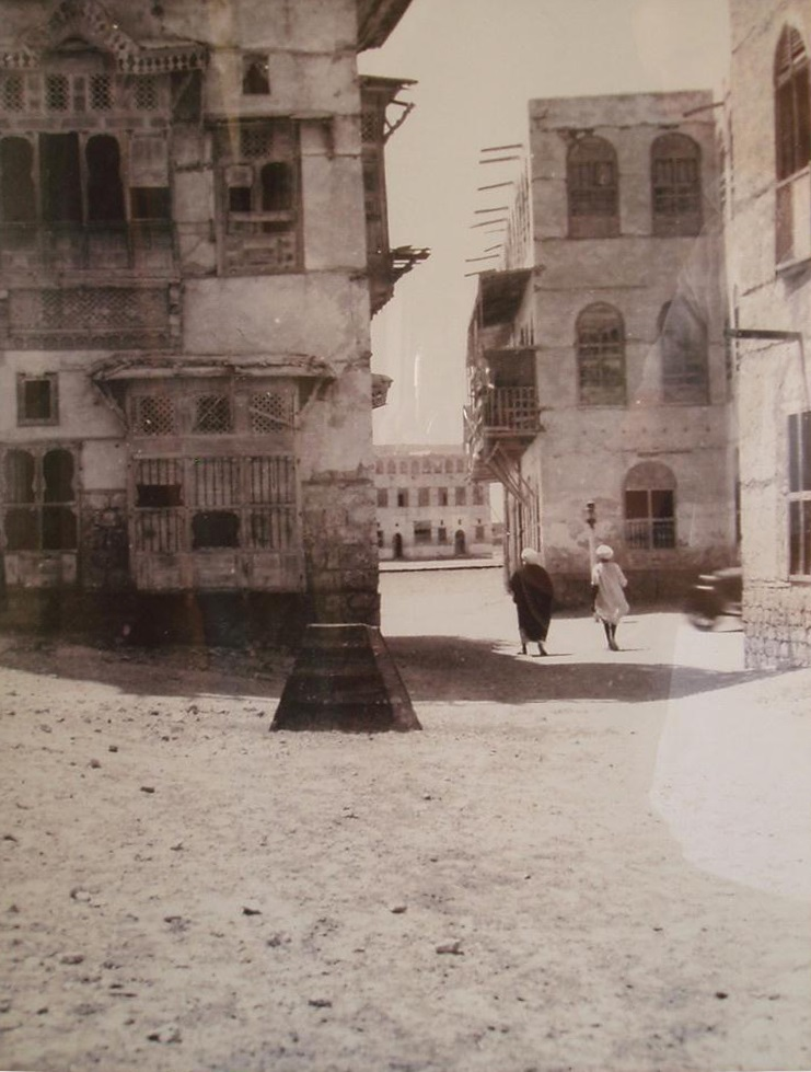 In 1928 the city of Suakin situated at the Red Sea Coast of Sudan, was a wonderful place with many historical buildings.